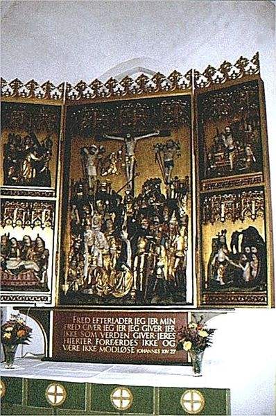 Birkerød Kirke (church)